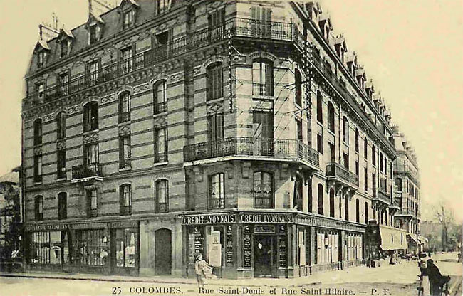 The streets Saint-Hilaire (left) and Saint-Denis (right) in Colombes (Hauts-de-Seine, France) circa 1910. Architect of the building was Juste Lisch.